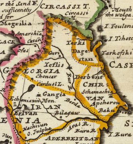 Persia, Caspian Sea, part of Independent Tartary. By H. Moll Geographer. (Printed and sold by T. Bowles next ye Chapter House in St. Pauls Church yard, & I. Bowles at ye Black Horse in Cornhill, 1736)